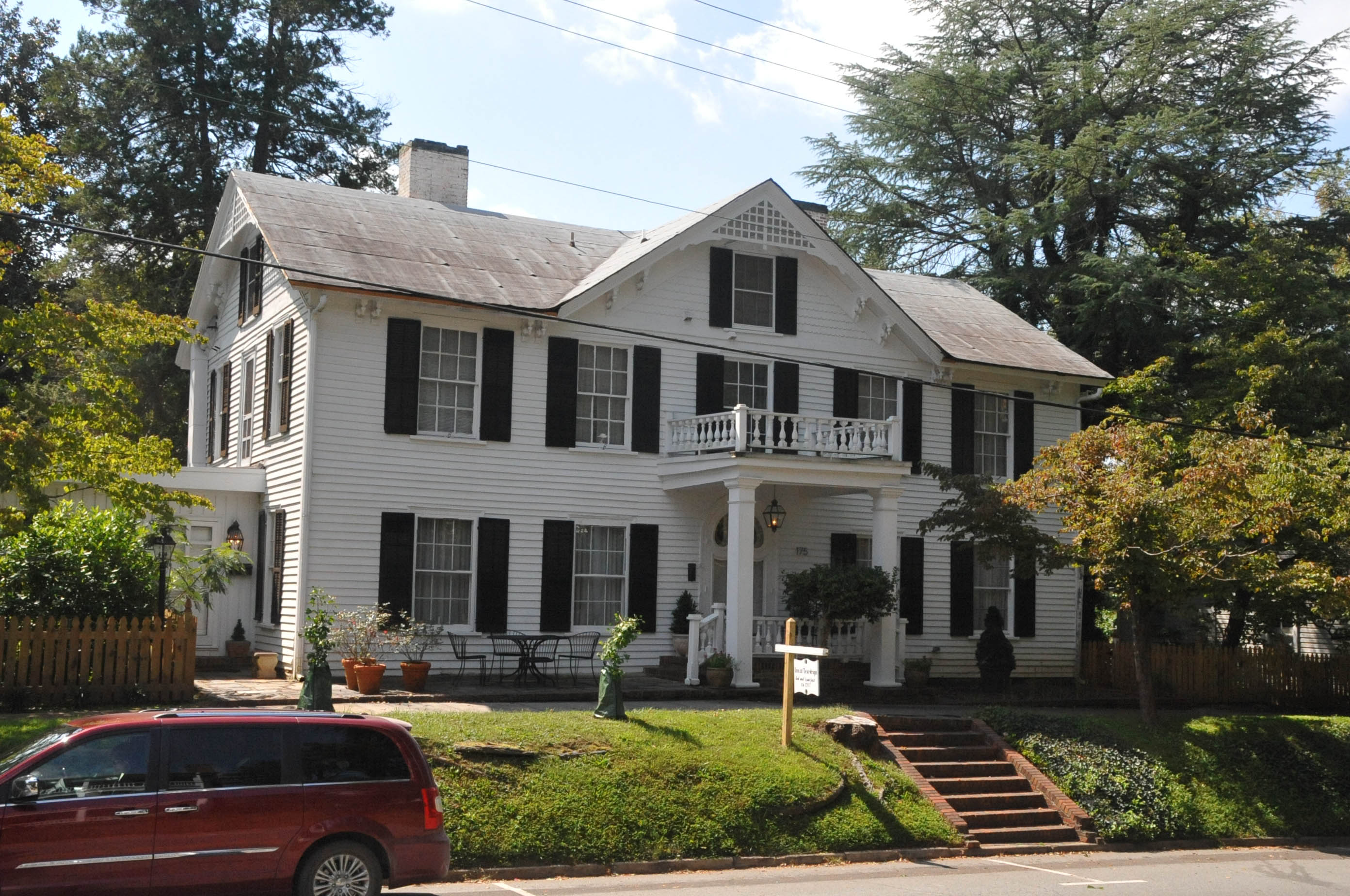 INN AT TEARDROPS ; HILLSBOROUGH HISTORIC DISTRICT; BUILT IN 1769 AND ENLARGED IN 1880; NOW A B & B AND ONE OF A LARGE NUMBER OF CONTRIBUTING UNITS OF THIS HISTORIC DISTRICT